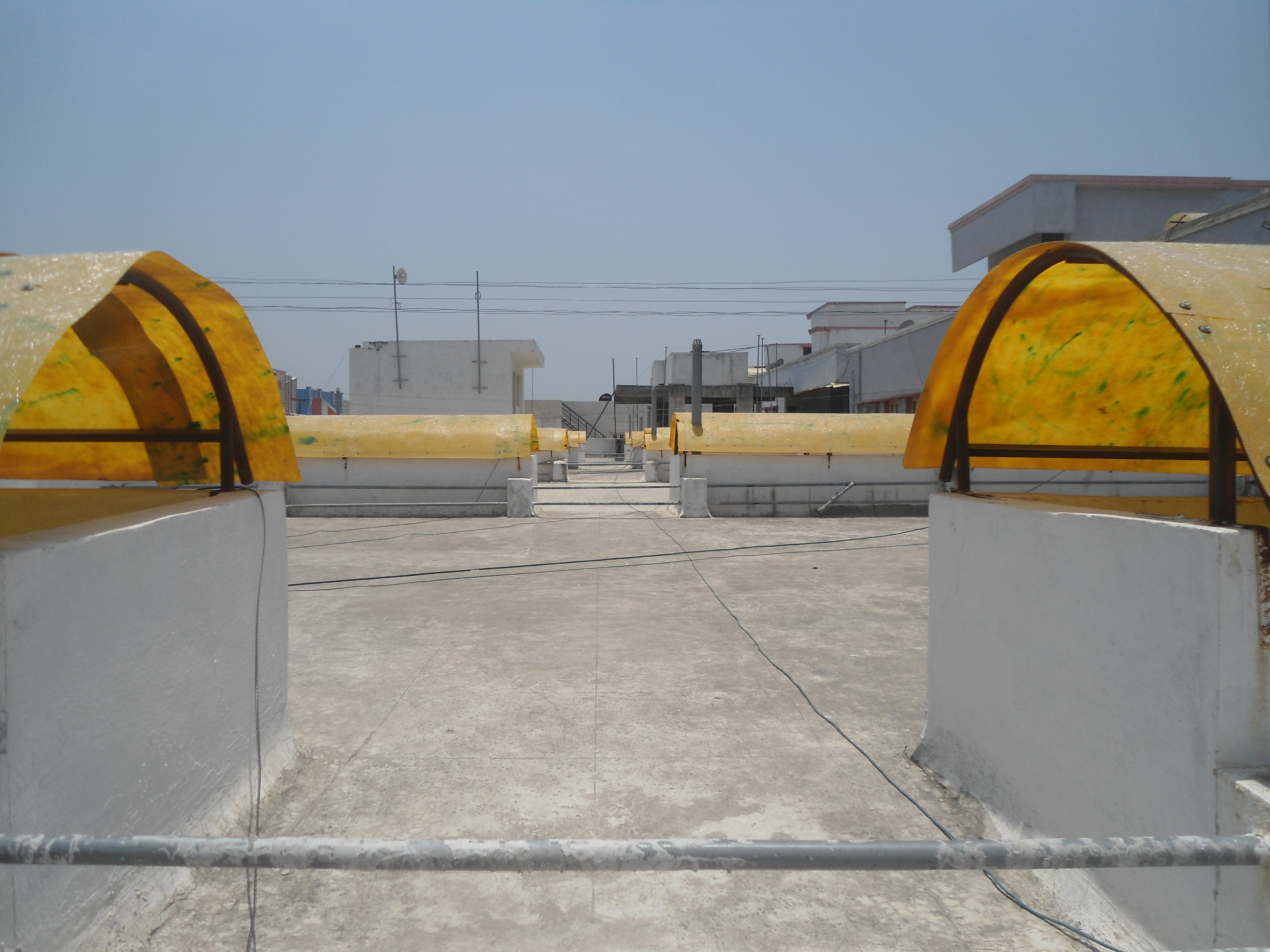 Terrace of an apartment in Nizampet, Rangareddy district